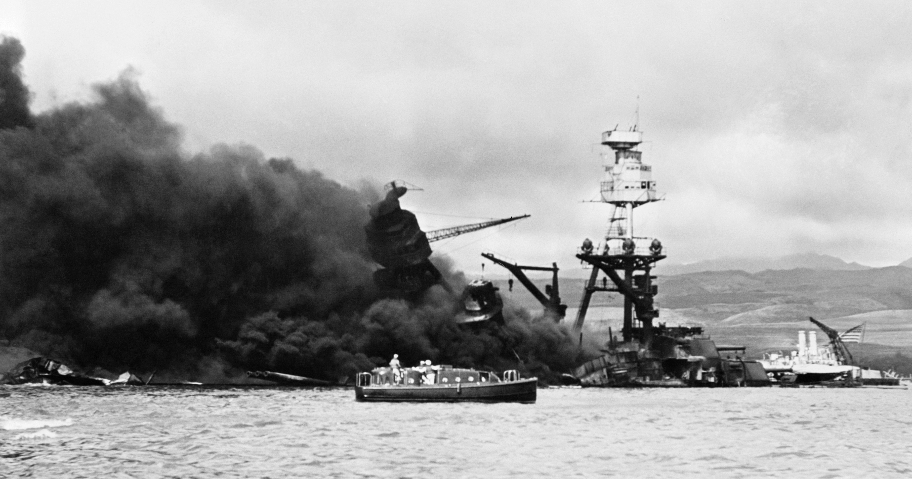 The burning wreckage of the U.S. Navy battleship USS Arizona (BB-39) at Pearl Harbor, Hawaii.